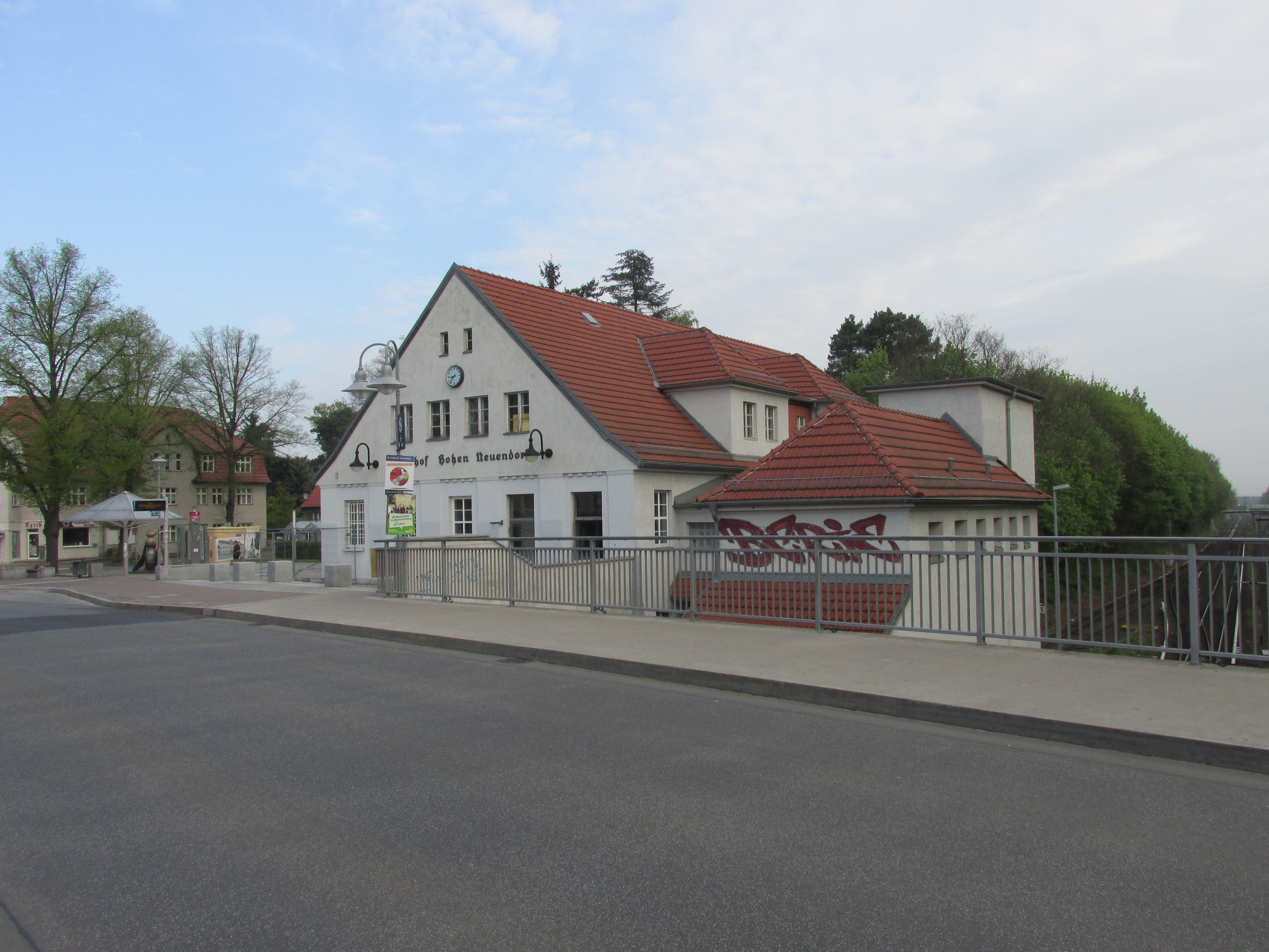 Bahnhof Hohen Neuendorf from the southeast. This was Marientta Jirkowsky's last train station that she transited before her failed escape attempt on November 22, 1980